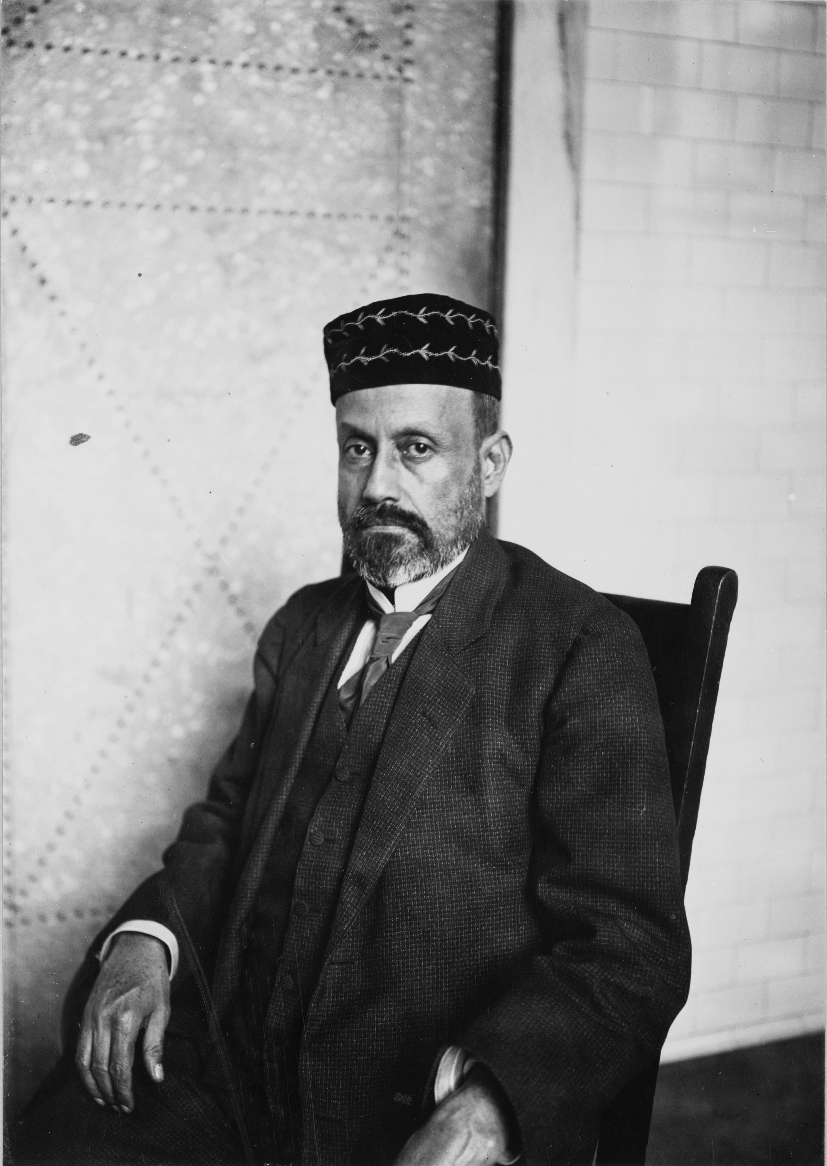 Cipriano Castro, half-length portrait, seated, facing left, 1913.